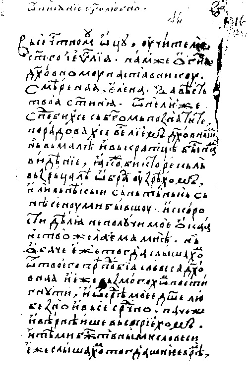 The first page of the manuscript Otpisanije bogoljubno which is part of Gorički zbornik, written in period 1441-1442